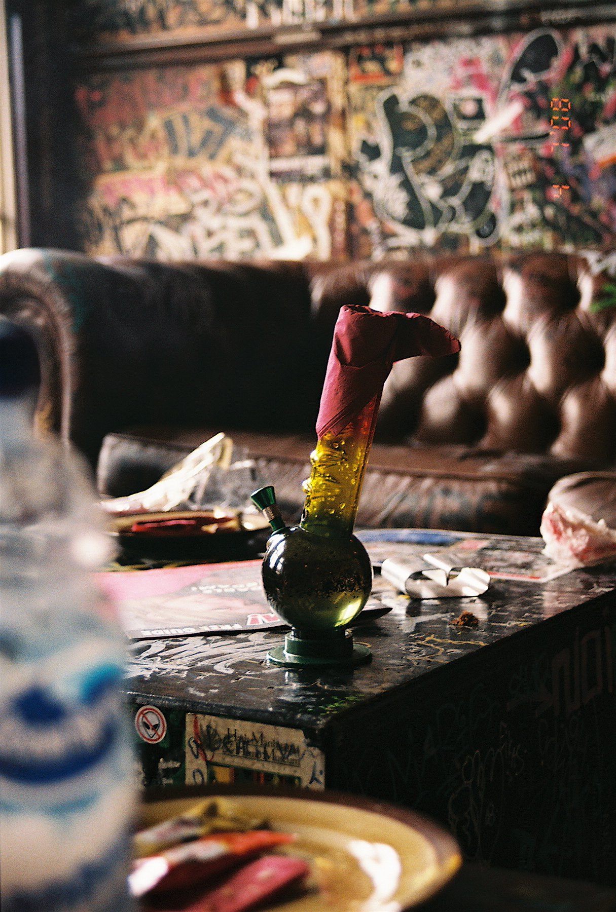 a bong in a coffeeshop hill street blues in Amsterdam.